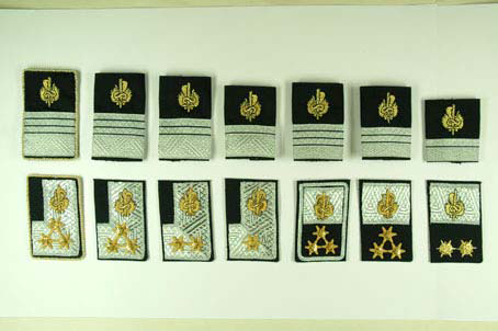 This image is in the public domain according to Austrian copyright law because it is part of a law, ordinance or official decree issued by an Austrian federal or state authority, or because it is of predominantly official use. (§7 UrhG) To uploader: Please provide where the image was first published and who created it. Bundespolizei – Distinktionen (Einsatzkommando Cobra), Bild 2